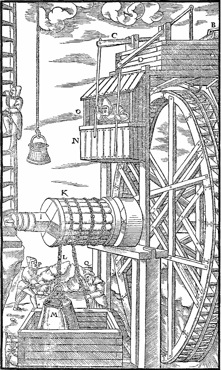 Woodcut scanned from original work by Agricola